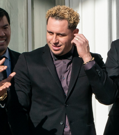 Members of the 2019 World Series Champion Washington Nationals acknowledge the applause of the crowd Monday, Nov. 4, 2019, from the South Portico balcony of the White House. (Official White House Photo by Andrea Hanks)